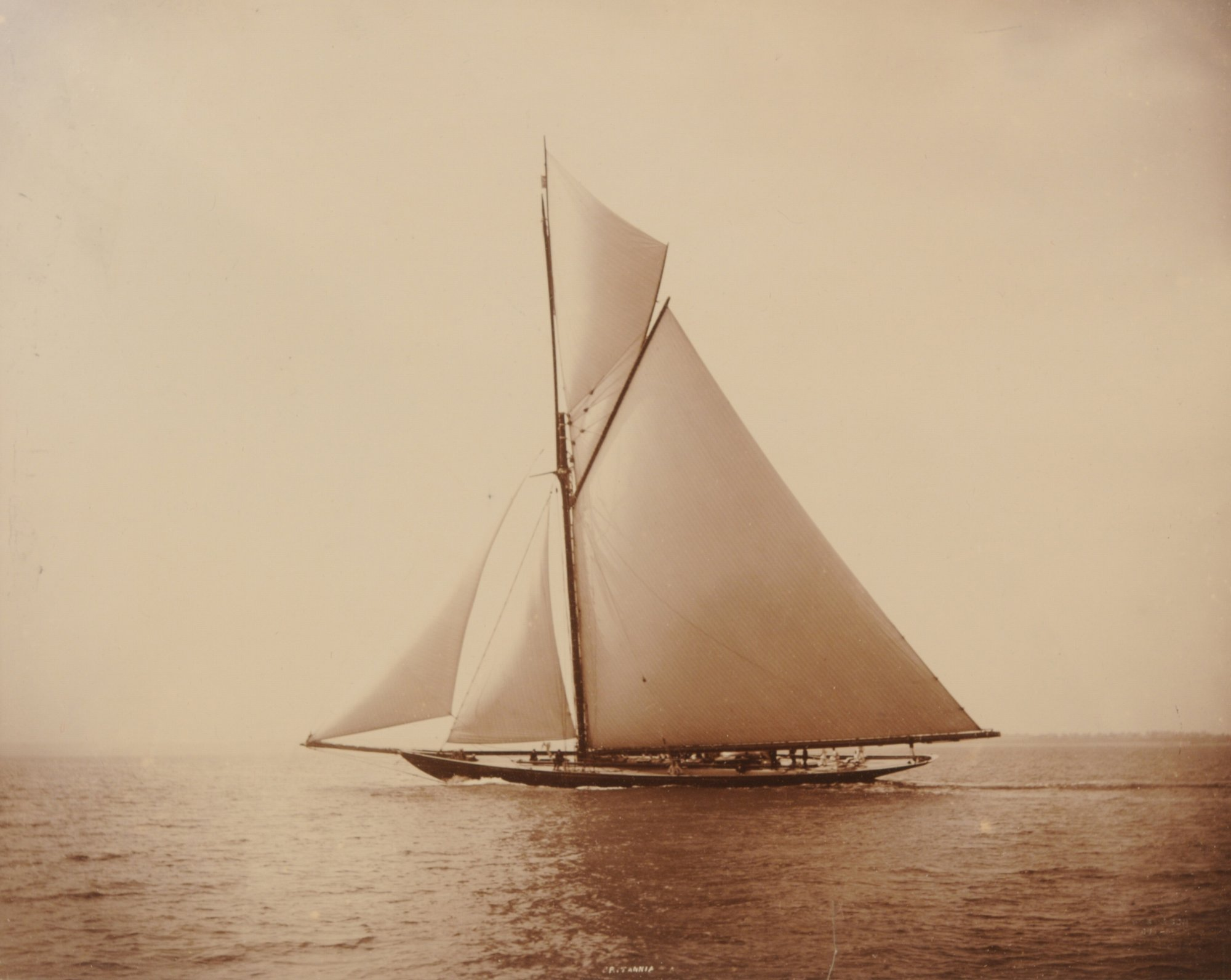 Prince Albert Edward's first-class rater Britannia (George Lennox Watson design, built in 1893 at the D&W Henderson shipyard)